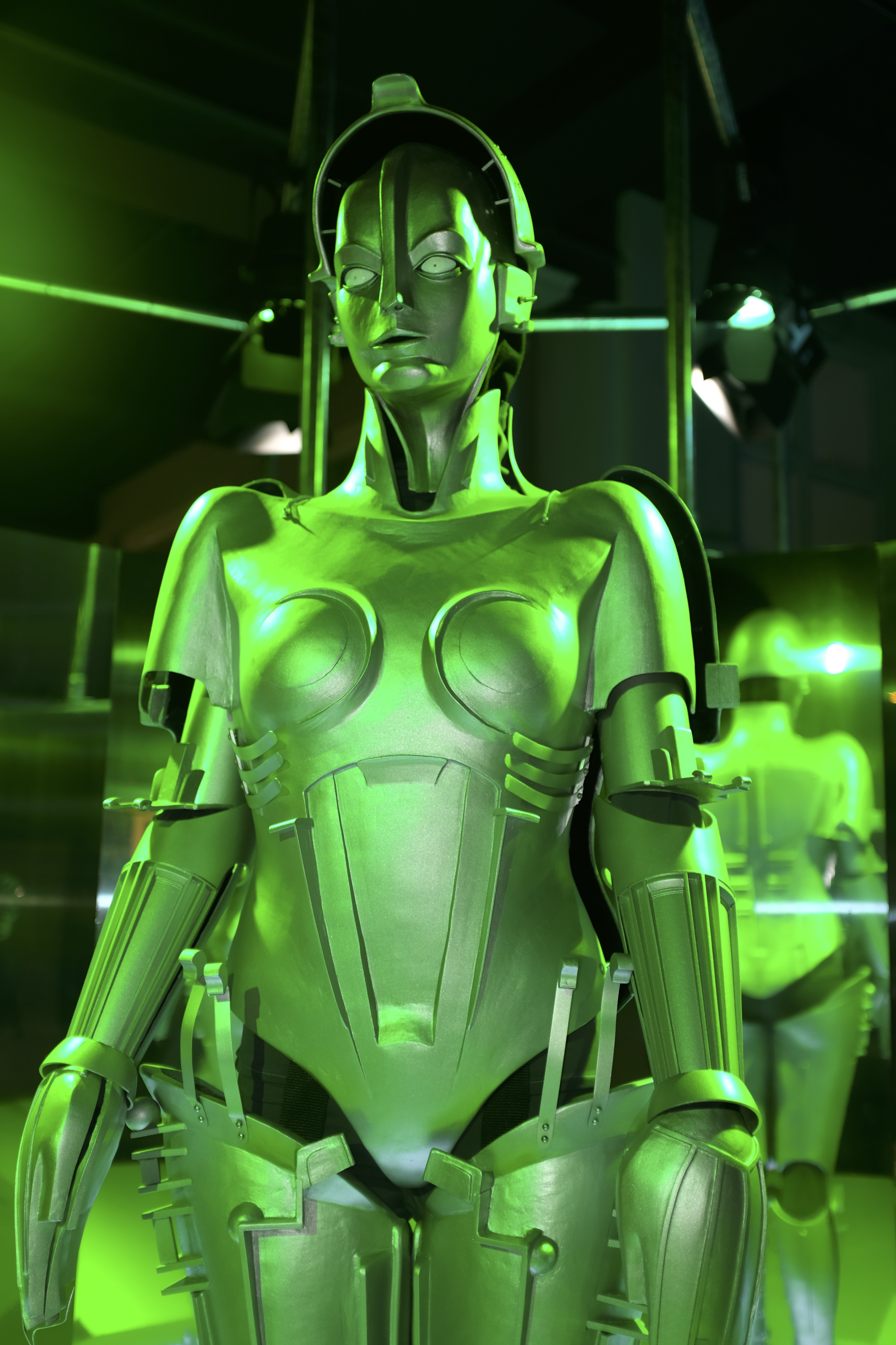 Robots exhibition, Science Museum, London.